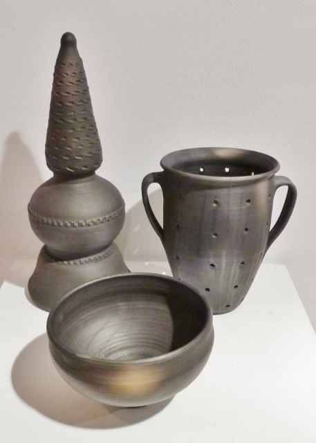 Traditional pottery (21st century) from Miranda (Avilés, Asturias), Spain.